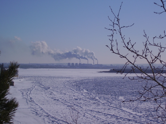 Khabarovsk panorama in Winter and frozen Amur River